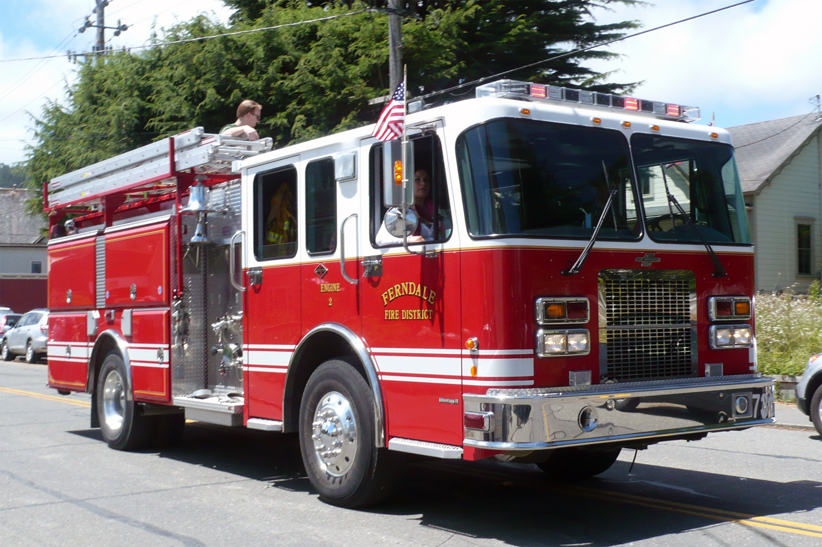 Ferndale Volunteer Fire Department Engine #2 in the 4th July Main Street Ferndale parade.